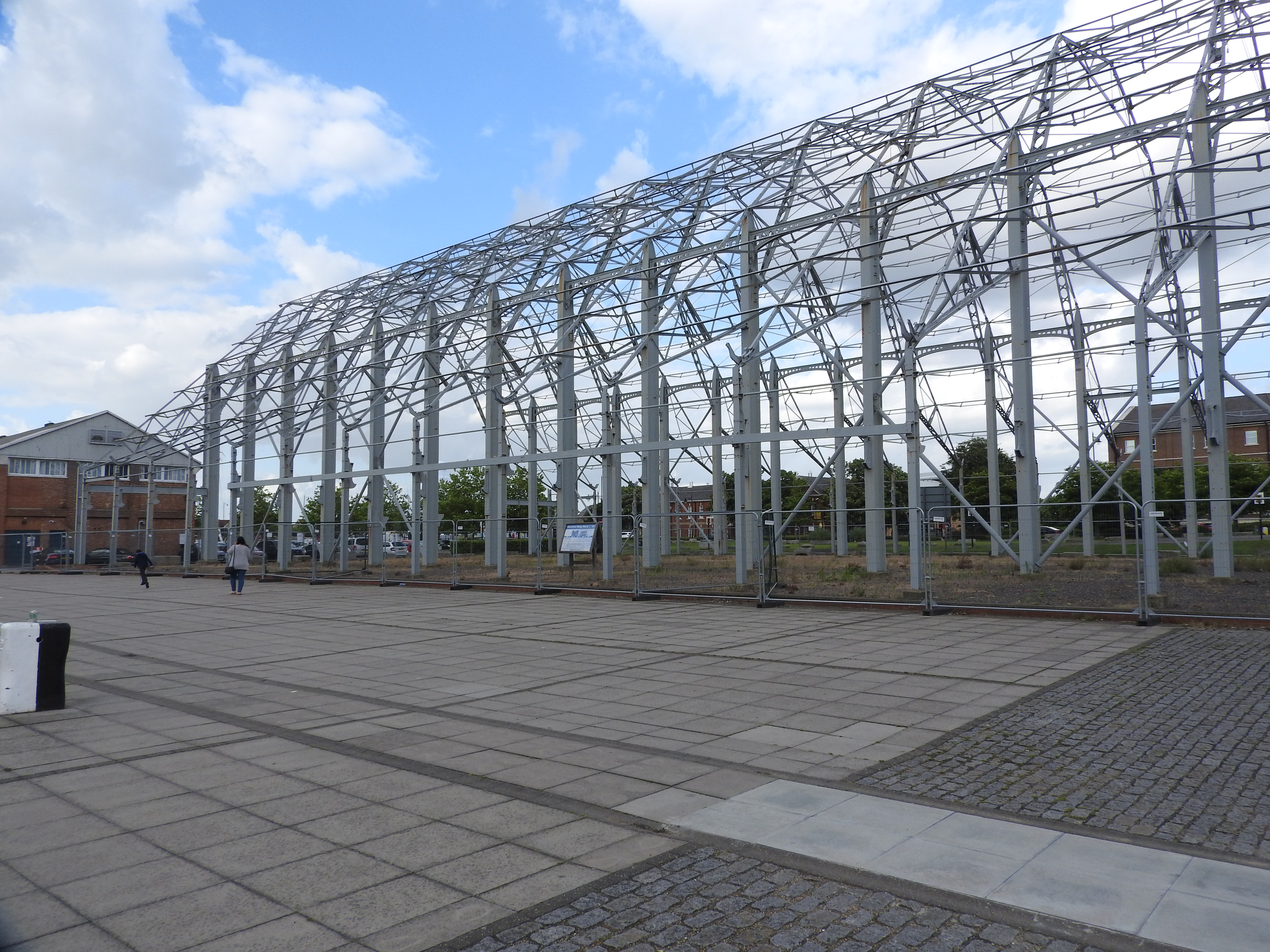 No 1 Basin at Chatham Dockyard, it opened in 1871 and is now used as a marina. There were 4 docks to the south, 5 to 8 and later one larger dock #9 to the north alongside the lock to the river.